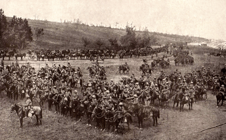 18th KGO Lancers near Mametz during the Battle of Somme, 1916.